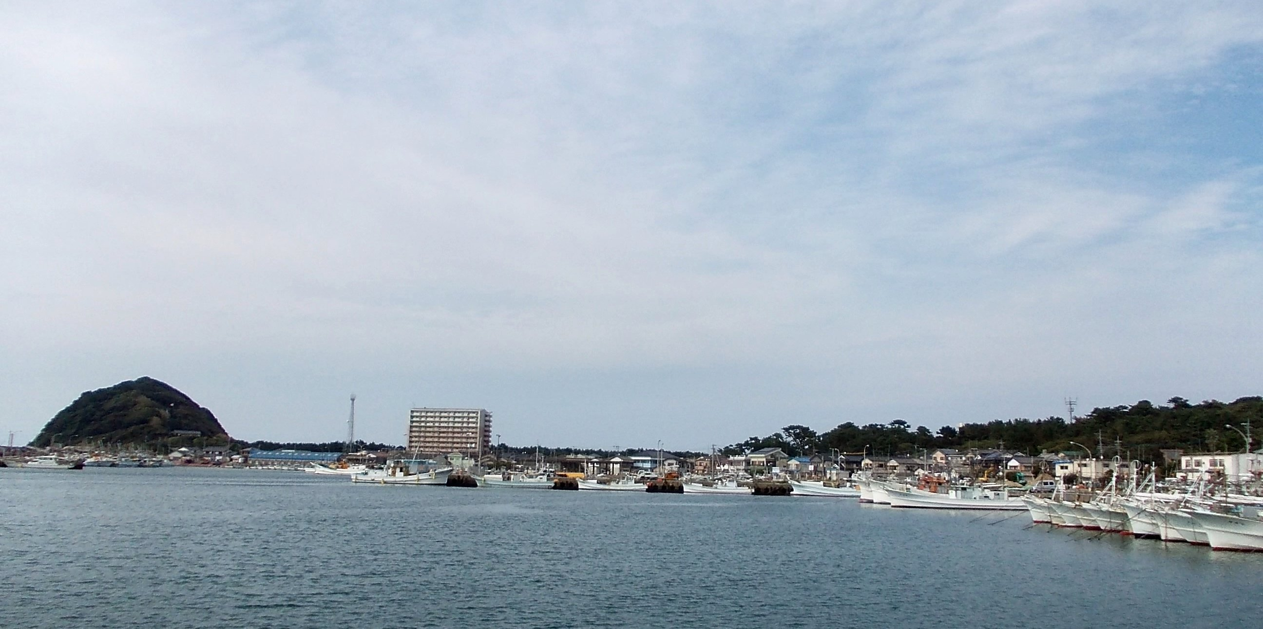 Kanezaki Port, Munakata, Fukuoka, Japan